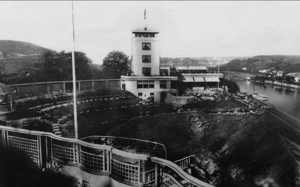 Barrandov Terraces (1930s) - below the terraces there are Barrandov Swimming Pool and Vltava River.